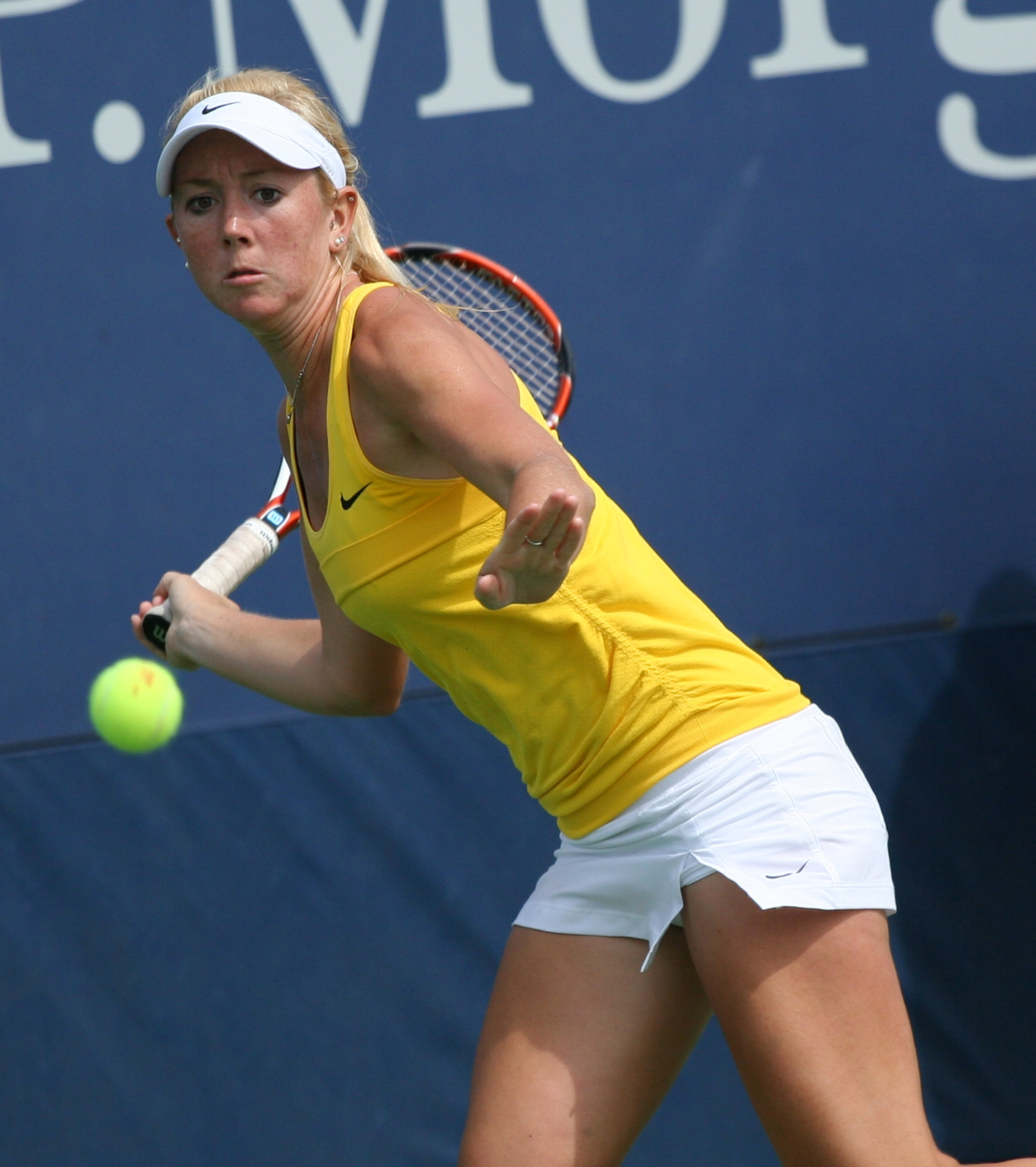 U.S. Open Juniors Tuesday, Sept. 8, 2009